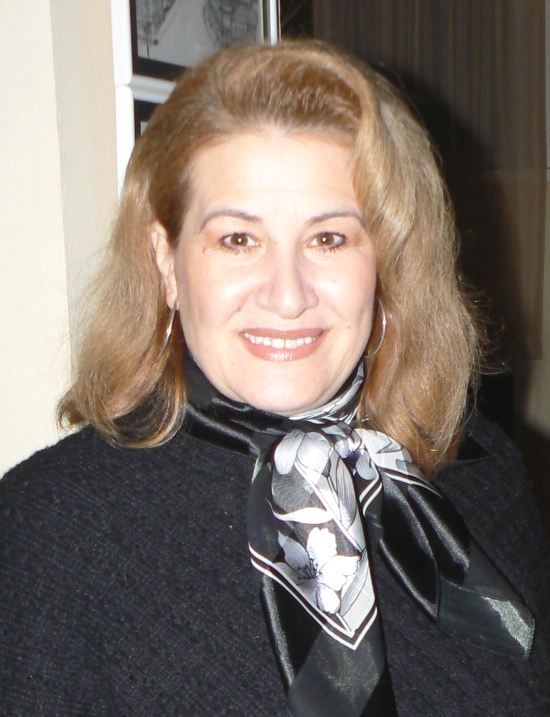 Bulgarian folklore singer Binka Dobreva